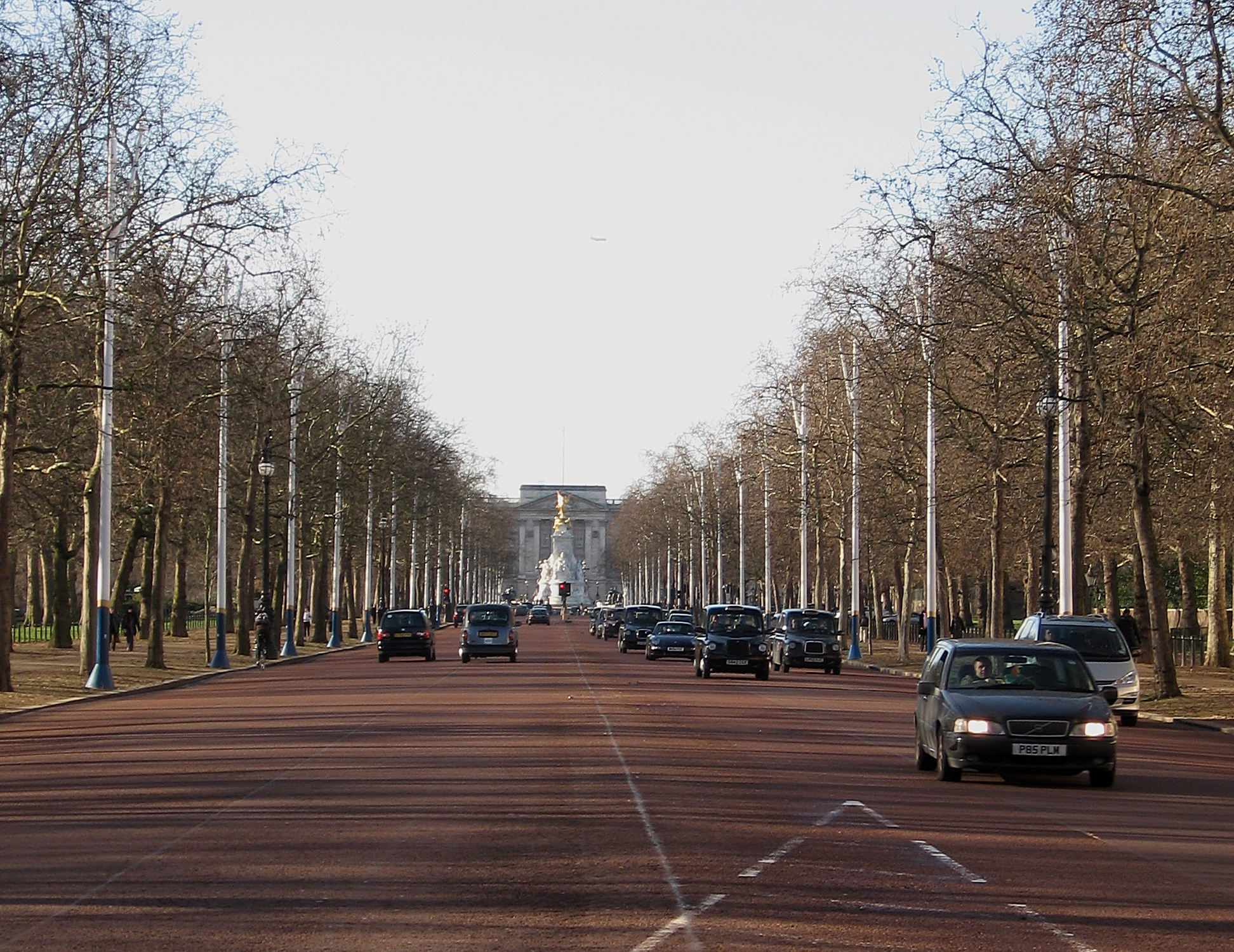 "The Mall" in London/UK is the road running from Buckingham Palace at its western end to Admiralty Arch.